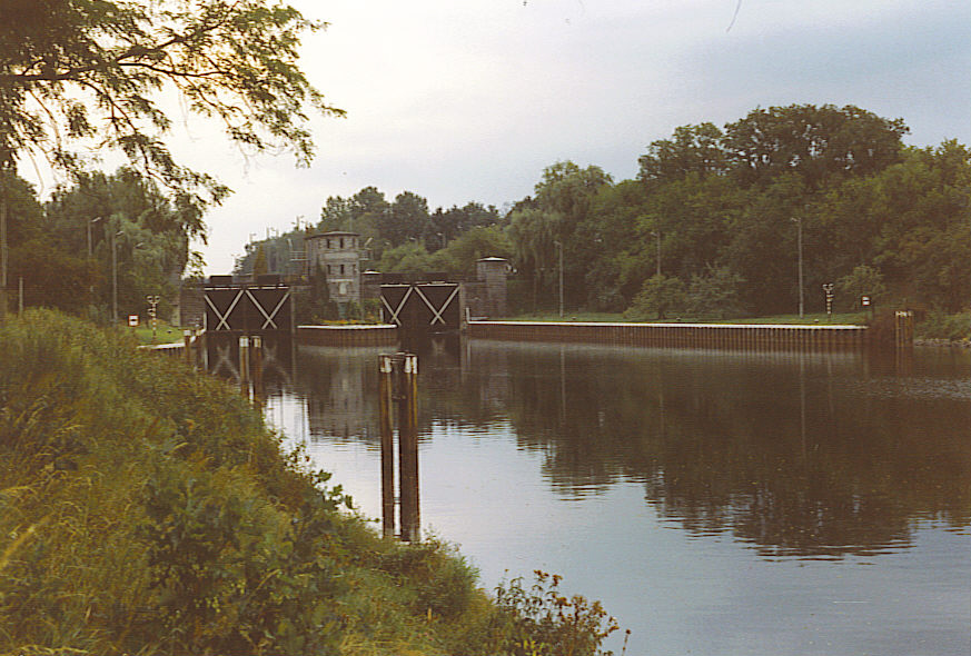 Lock on the Gliwice Canal - Poland. Own picture